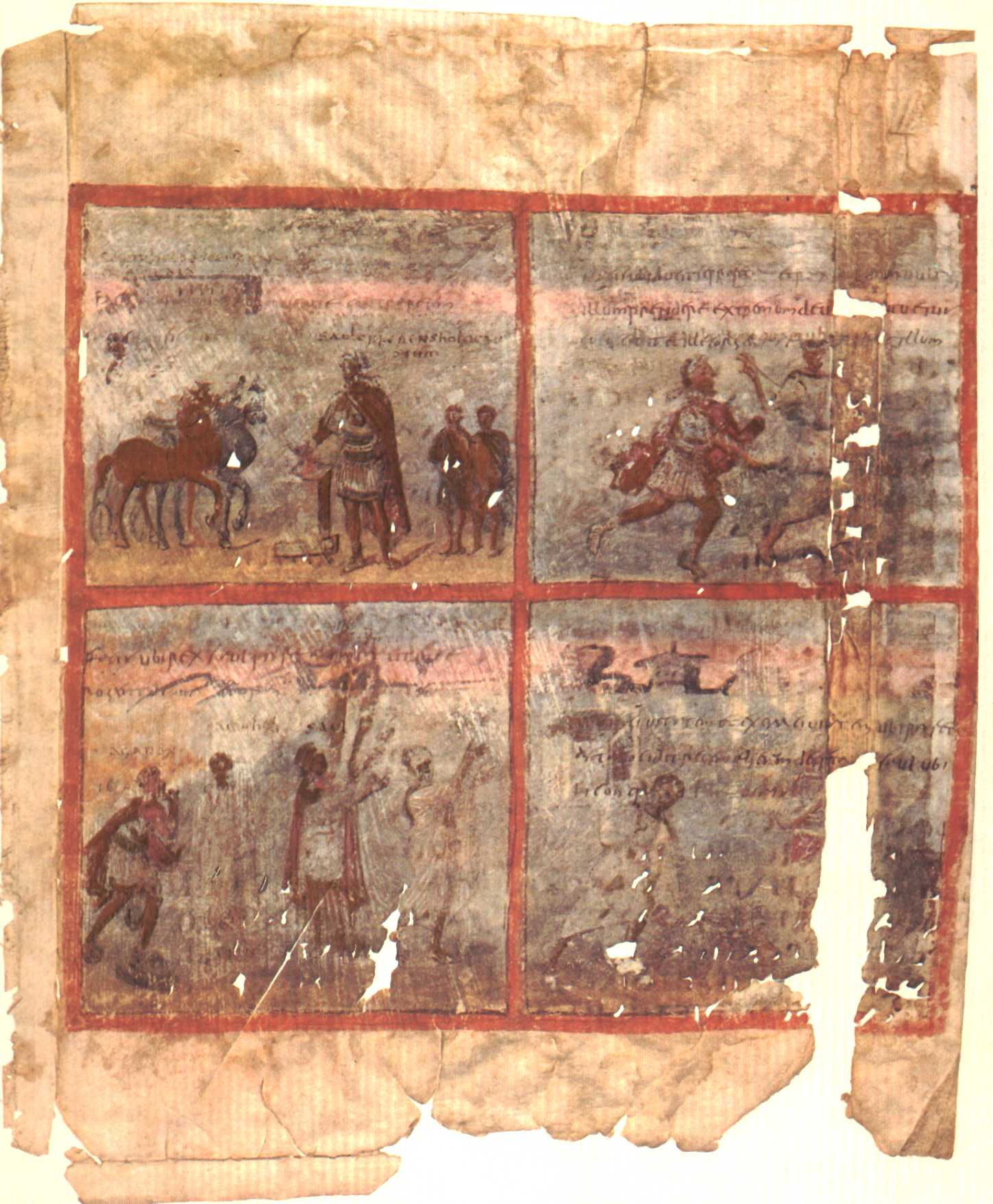 Folio 2 recto from the Quedlinburg Itala fragment (Berlin, Staatsbibliothek Preussischer Kulturbesitz, Cod. theol. lat. fol. 485)